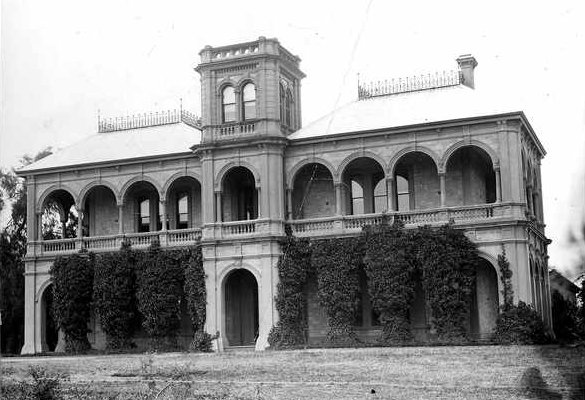 'The Briars' At Medindie 1910 - from 1914 McBride Hospital The 'Briars' - home of George Charles Hawker, 15 Briar Avenue, Medindie. The home later became the McBride Convalescent Hospital.